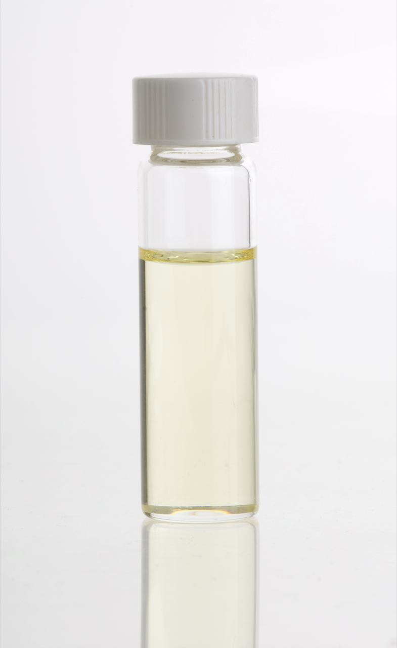 Glass vial containing Clary Sage (Salvia sclarea) Essential Oil